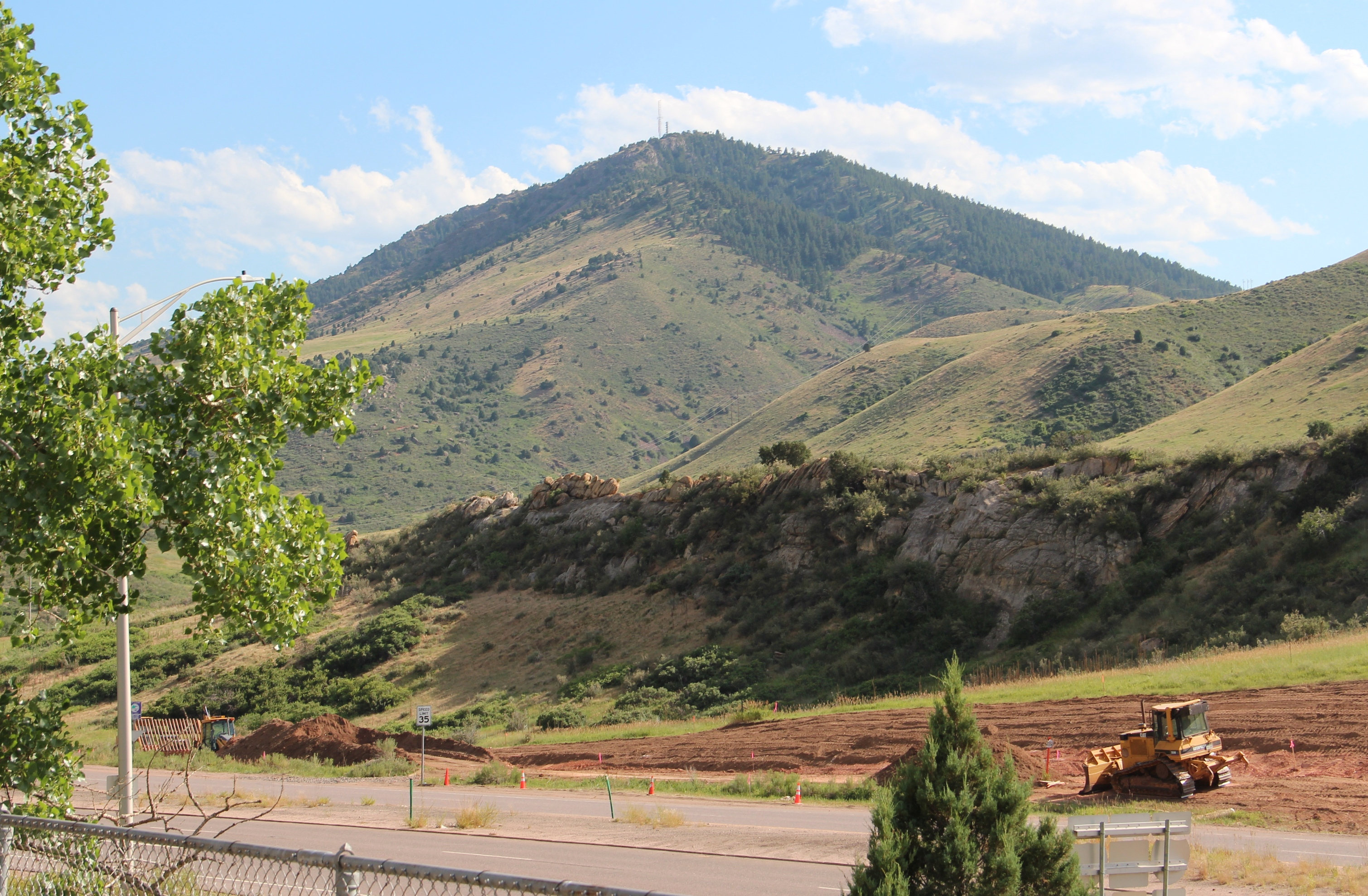 Mount Morrison Colorado viewed from I-70